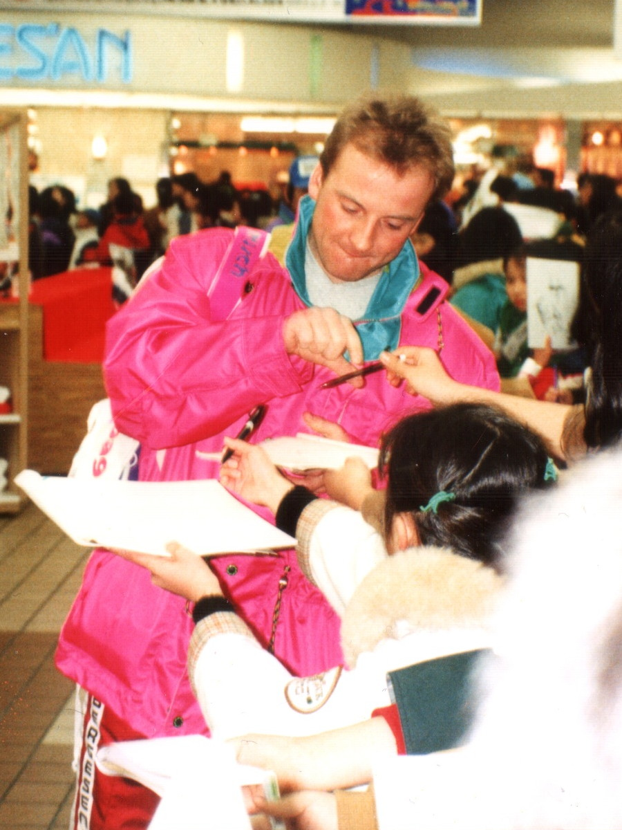 Norwegian alpine skier Kjetil André Aamodt giving autographs at Morioka Station, right after the World Championship in Shizukuishi, Morioka, Japan in 1993